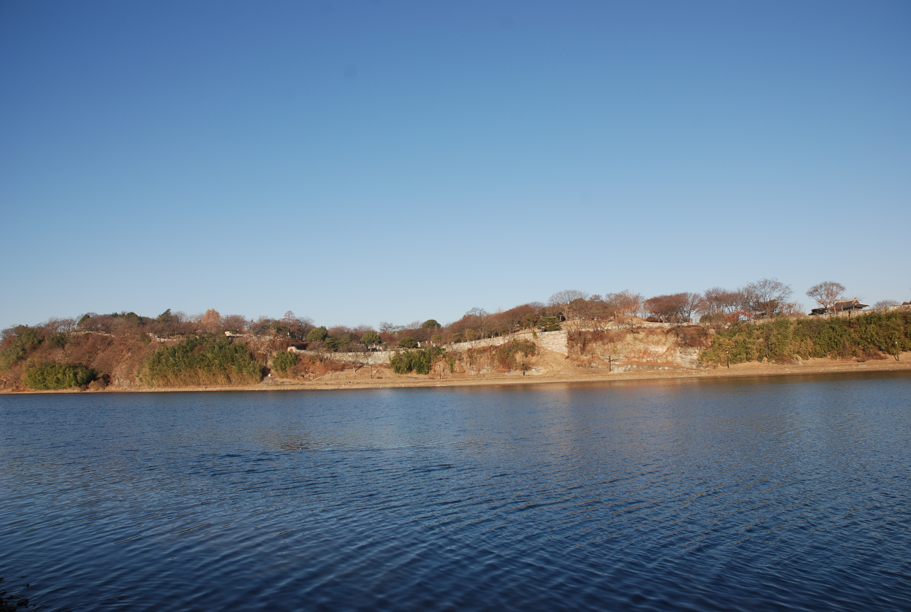 The Jinju castle rampart along Nam River